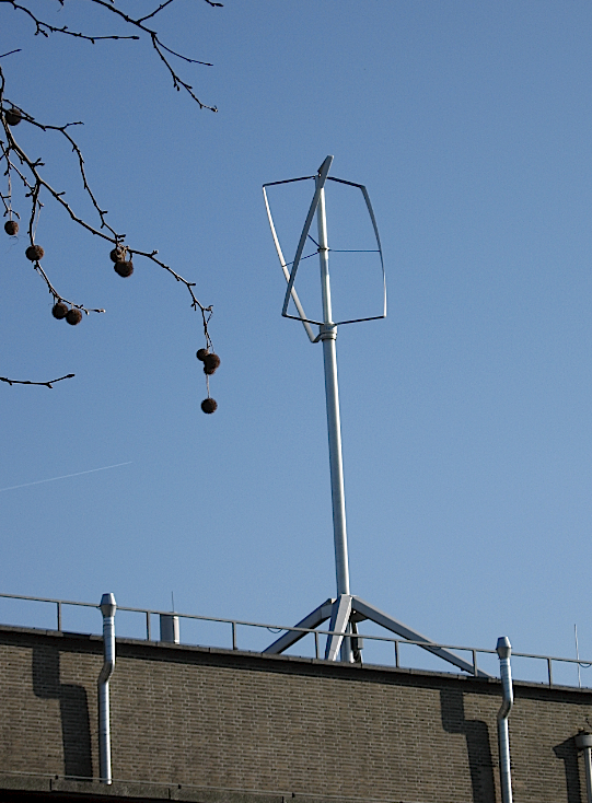 This model looks like an experimental unit. It is placed near the edge of a roof of a university building. The roof is about 10 - 12 meters up from ground level. The unit was not rotating and the vertical axis seems a little bent.